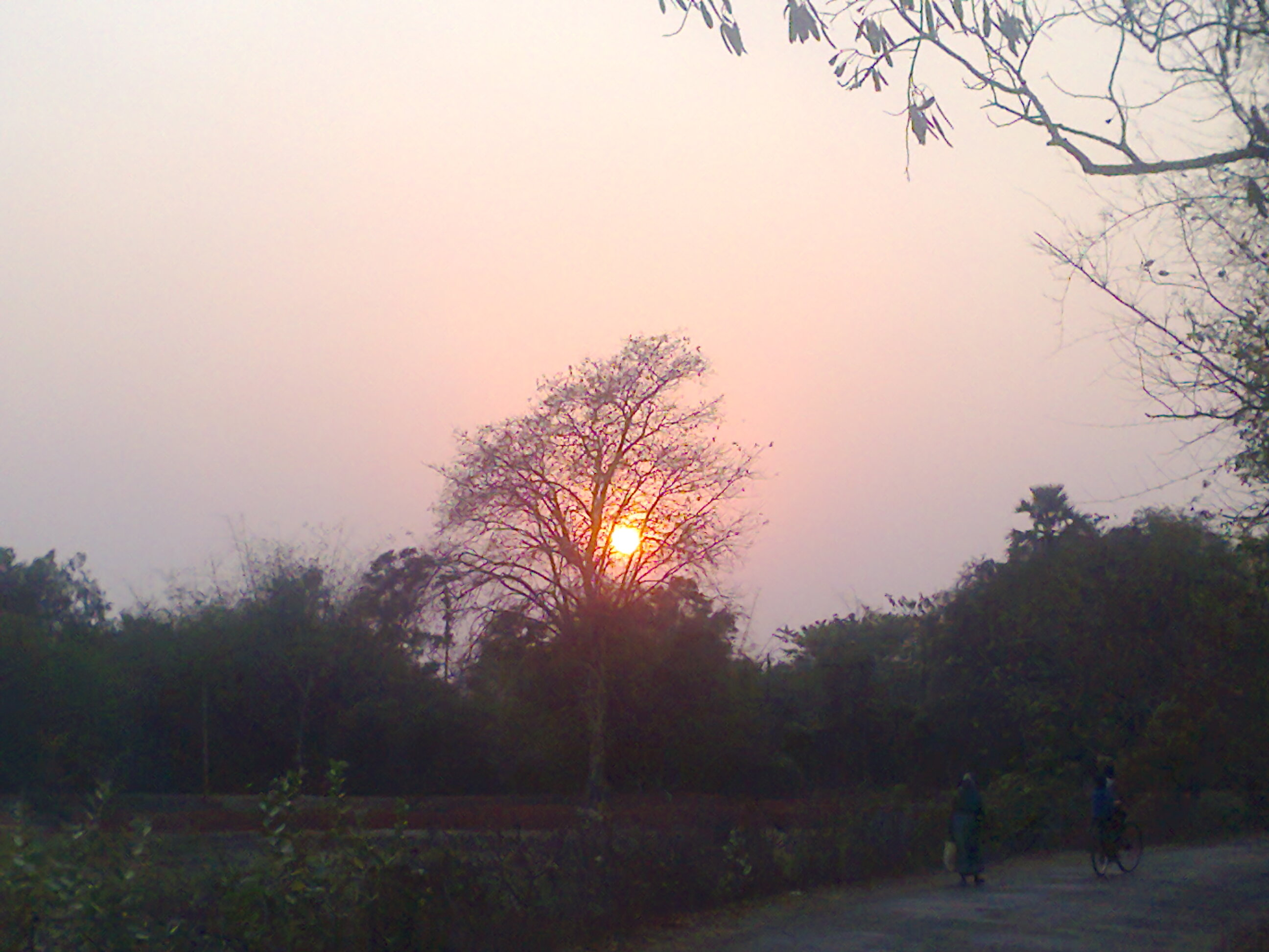 Suset view at Narma